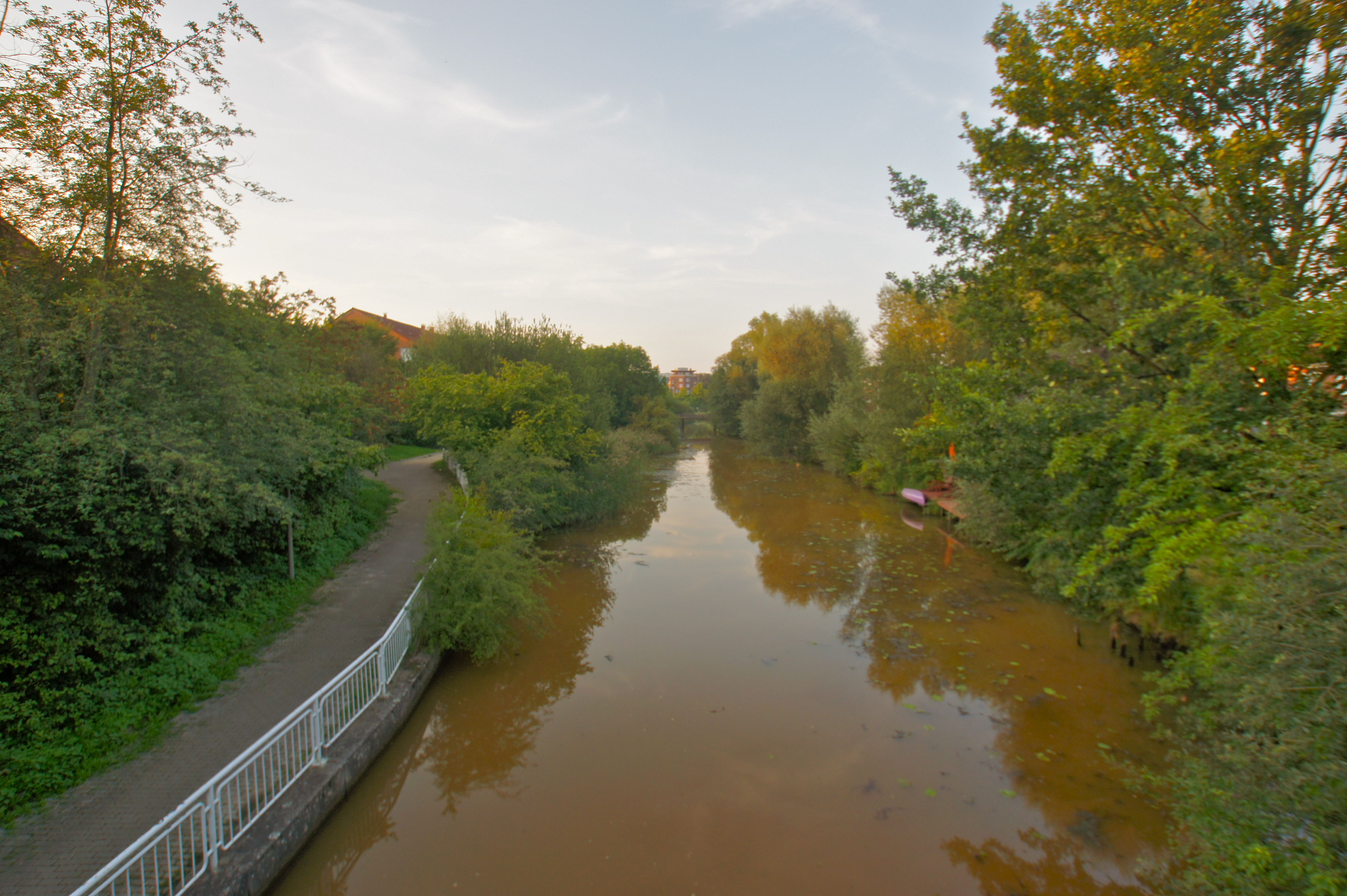 Hamburg (Neuallermöhe), Germany: The canal Annenfleet in northern direction